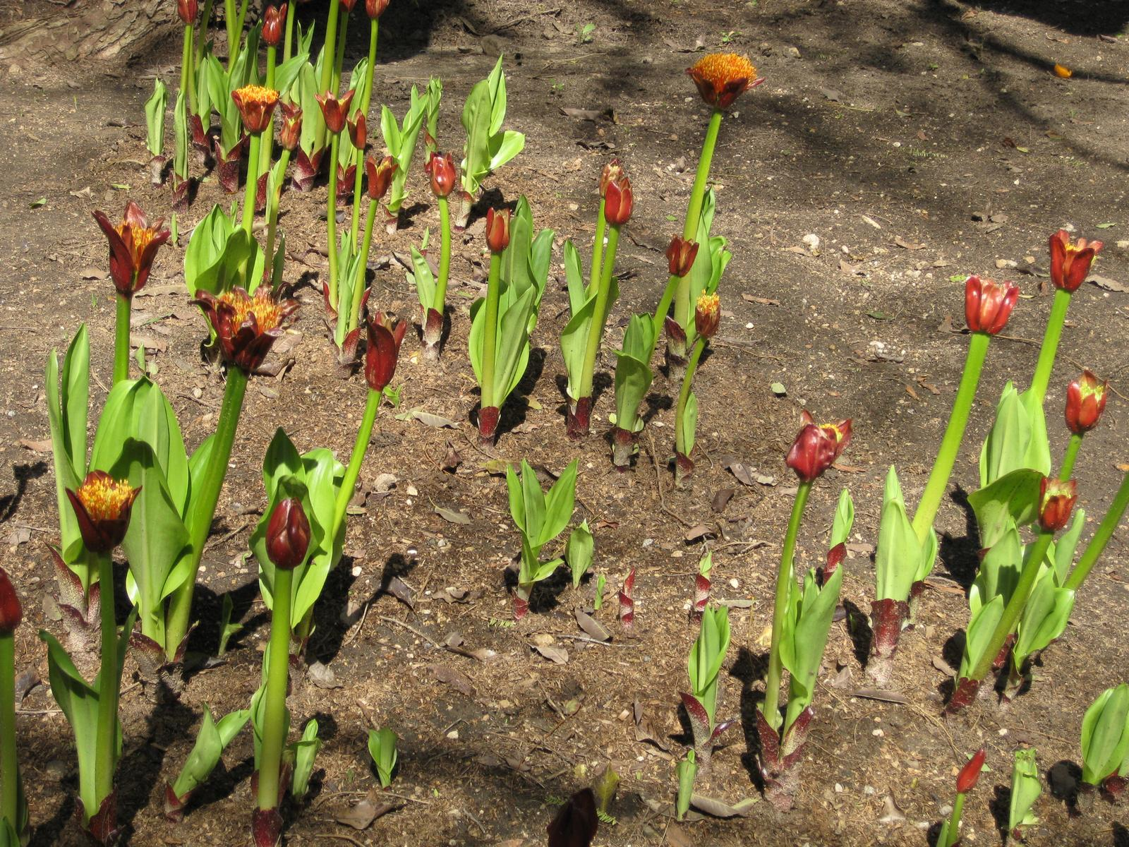 Photographed at Huntington Gardens (Los Angeles, California) in March